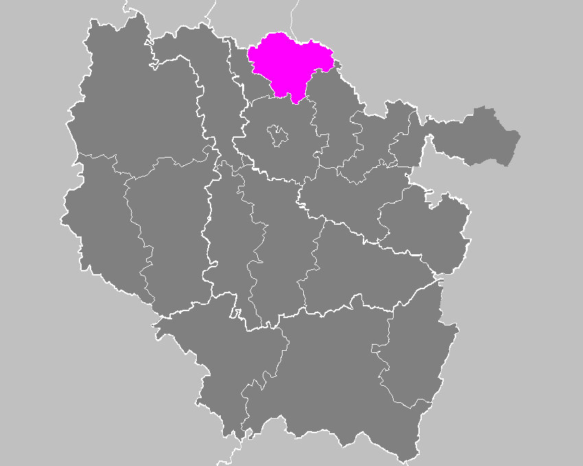 Maps of arrondissements and cantons of France: Arrondissement de Thionville-Est.PNG